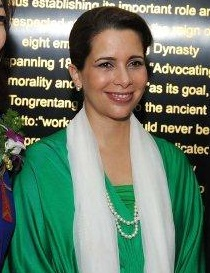 Haya bint Hussein